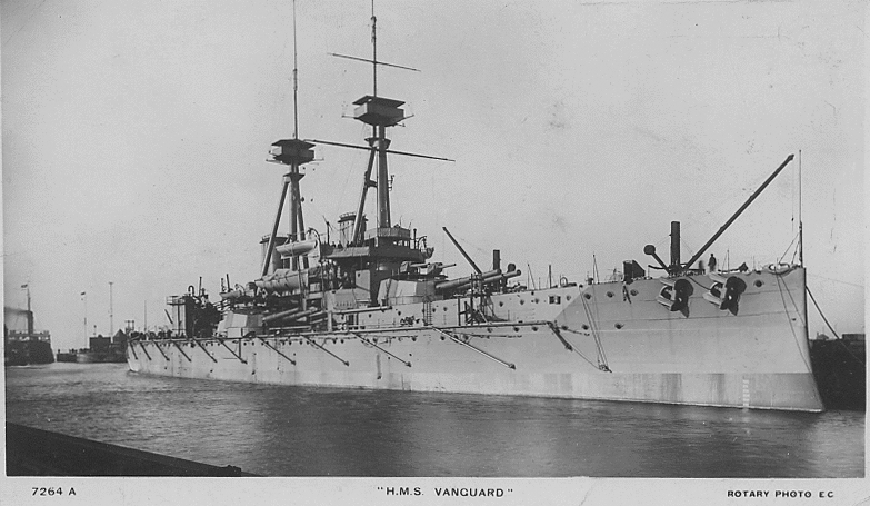 HMS Vanguard (1909)